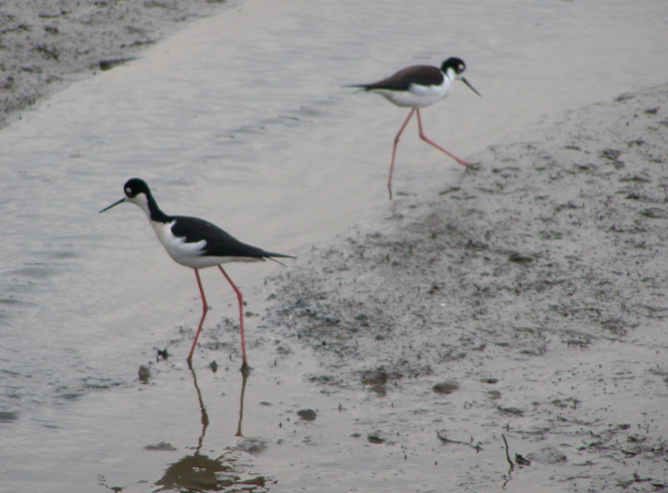 A pair of Black-necked Stilts